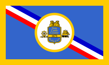 Flag of New Castle County, Delaware, USA